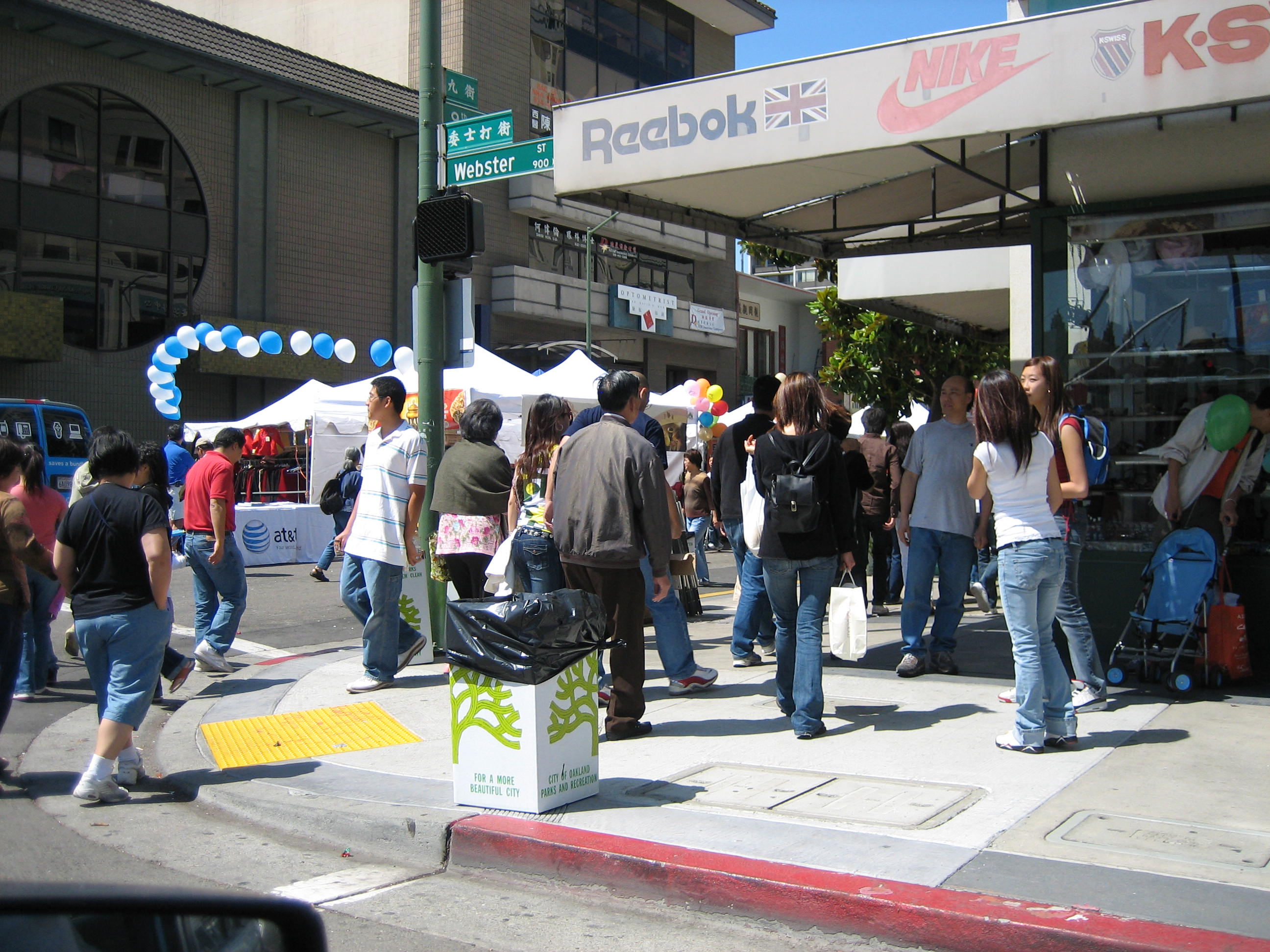 Uploading image of Chinatown StreetFest